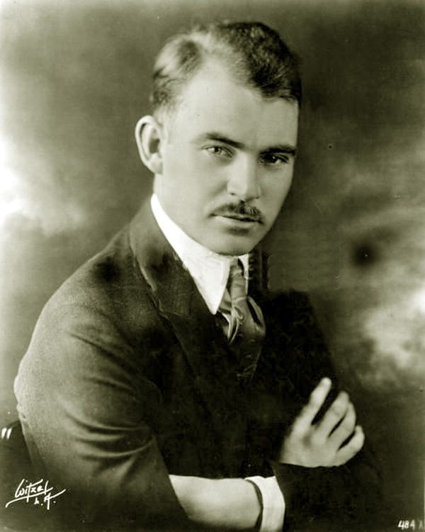 Portrait of American director, screenwriter, and producer Frank Richard Jones (1893–1930) by Albert Witzel